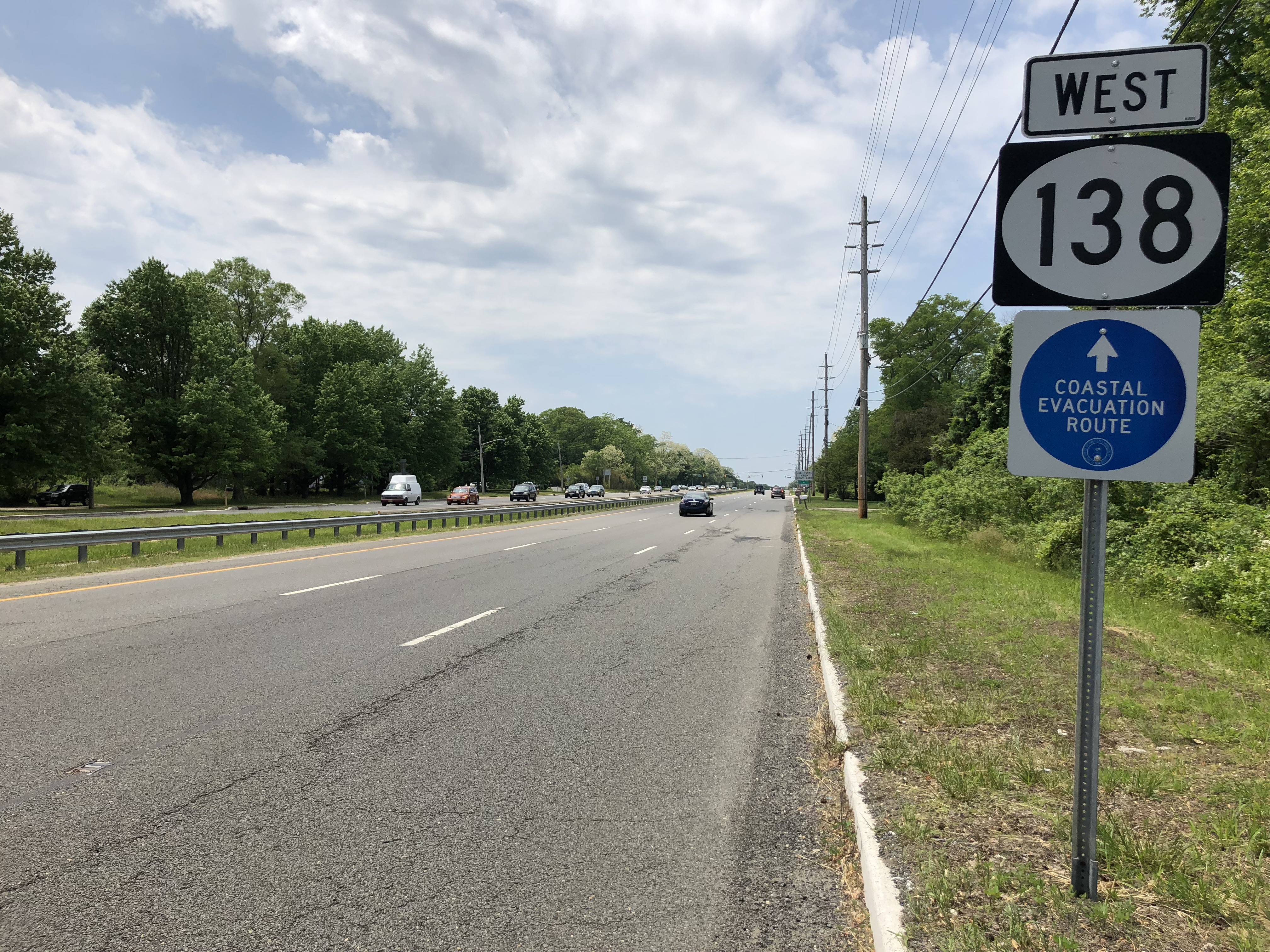 View west along New Jersey State Route 138 just west of New Jersey State Route 35 (River Road) in Wall Township, Monmouth County, New Jersey